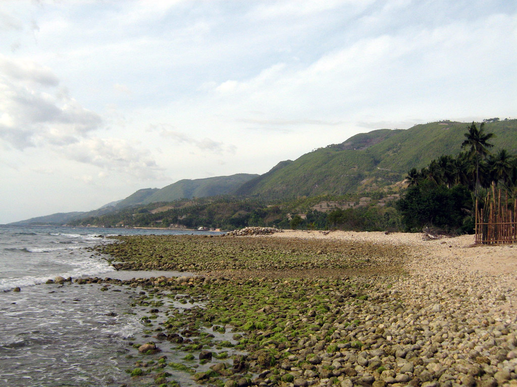 A view of the coast in Ginatilan, Cebu